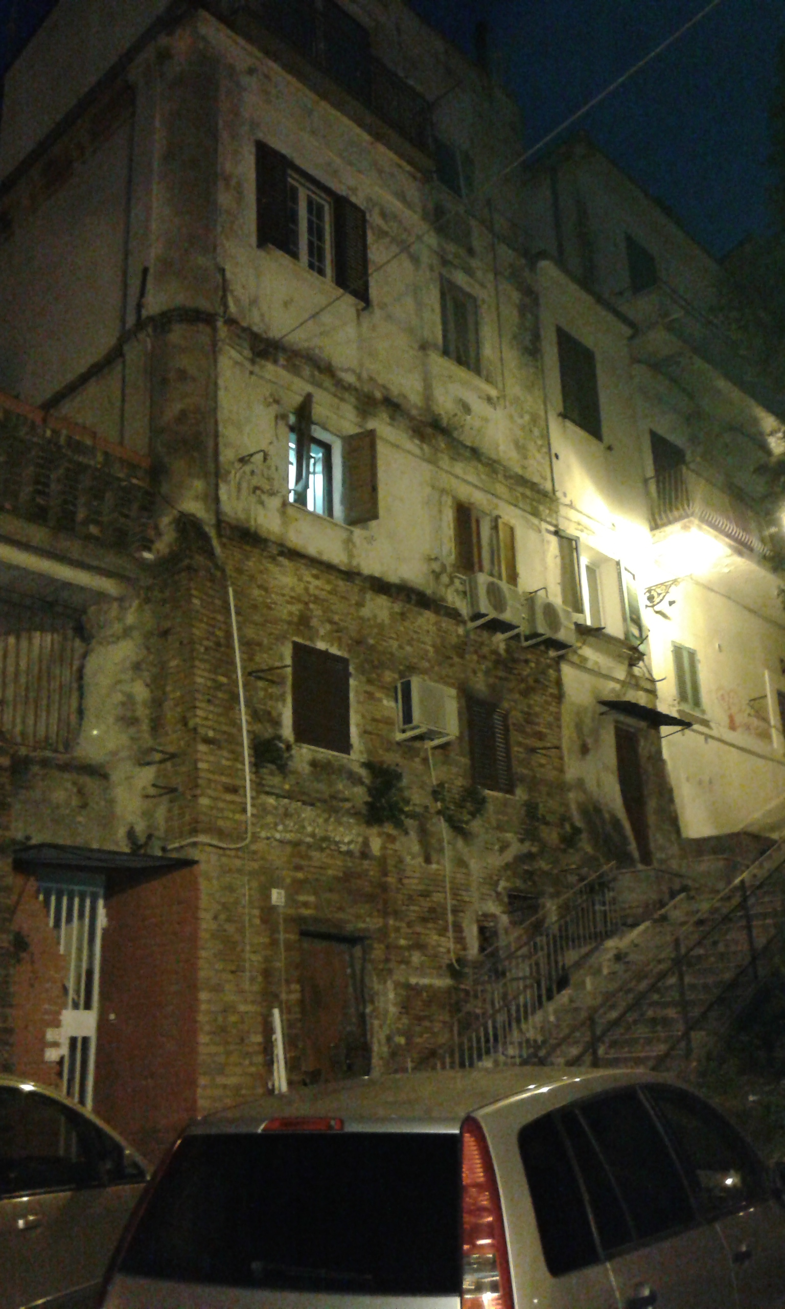 An old house in Civitella neighborhood of Chieti